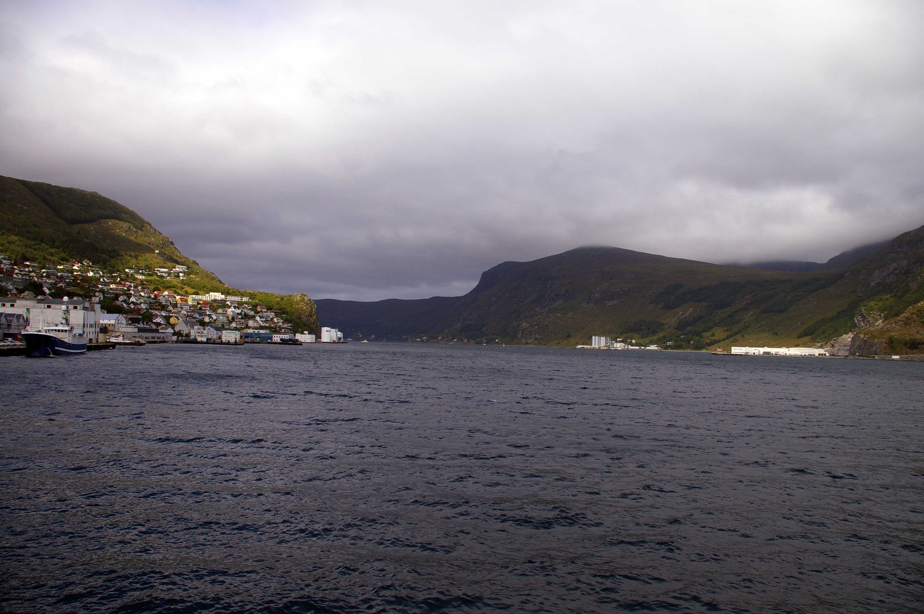 Ulvesundet at Måløy, Vågsøy, Sogn og Fjordane, Norway